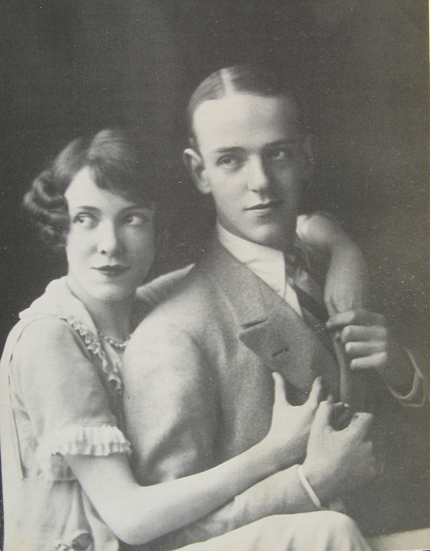 Cropped Publicity Photograph of Fred and Adele Astaire published in the US in 1919.